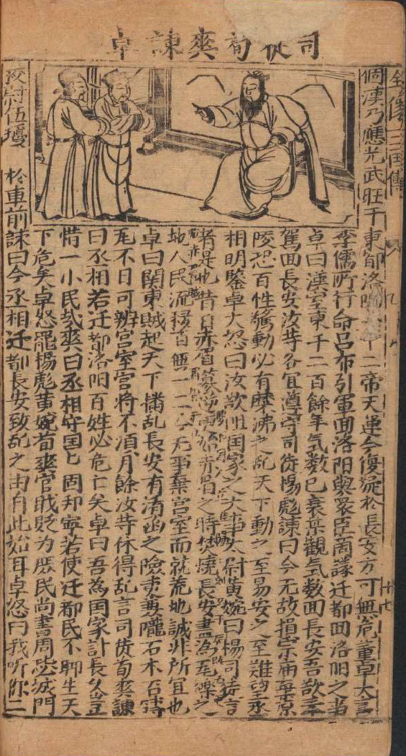 A page taken from Xin ke yin shi pang xun ping lin yan yi) san guo zhi zhuan ((新刻音釋旁訓評林演義)三國志傳). 中文（中国大陆）: 朱鼎臣辑本《(新刻音釋旁訓評林演義)三國志傳》某页。本则名为“董卓火烧长乐宫”。插图描绘荀爽谏阻董卓迁都。